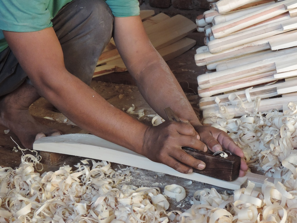 Cricket Bat being made by hand in a sports goods manufacturing unit in Meerut, India. This process is called 'pod shaving'. The bat in the image is made of poplar wood which is suitable for playing with soft balls.